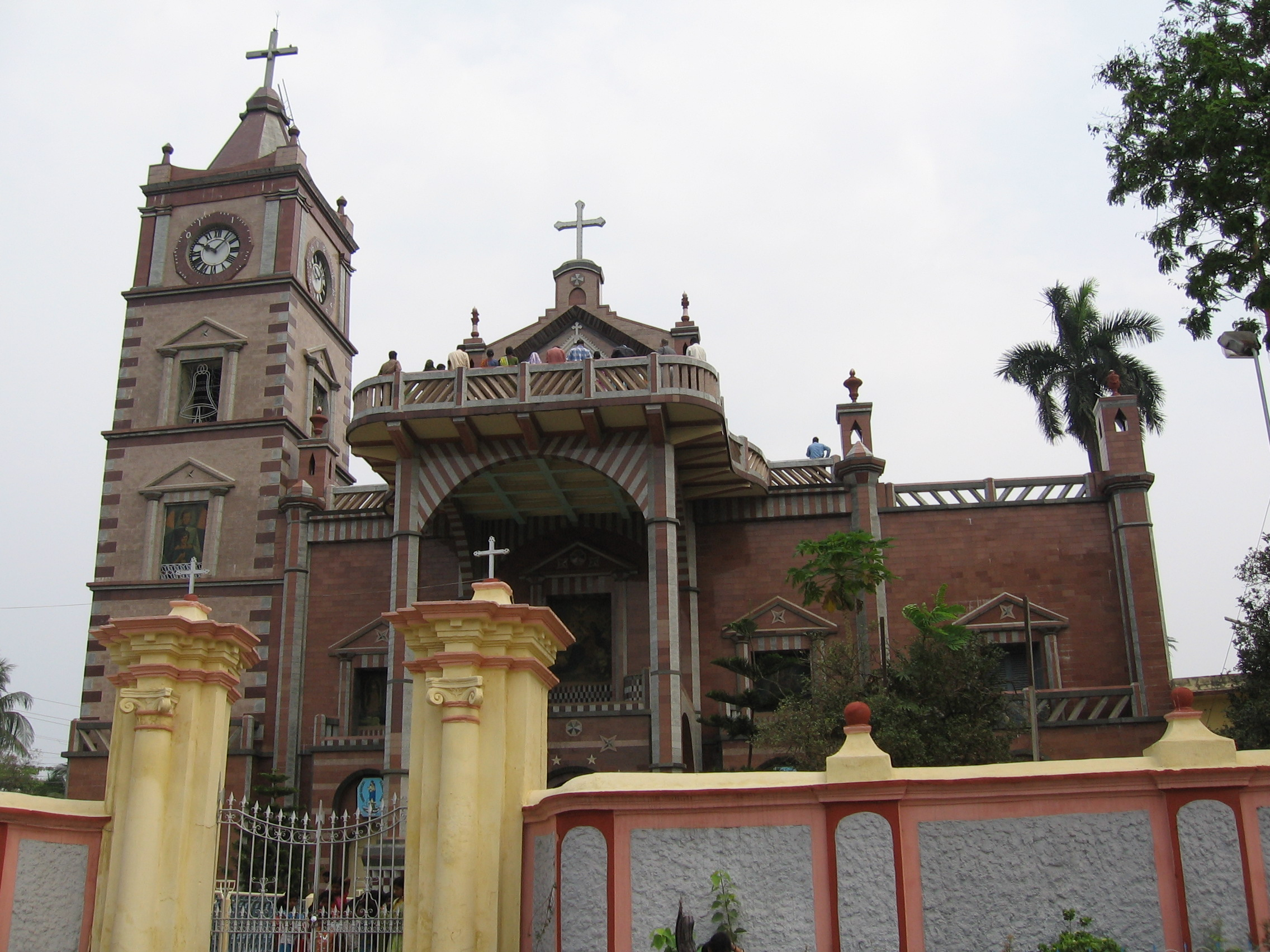 The basilica of Our Lady of Help in Hooghly-Bandel (North of Calcutta) is the oldest Catholic church in West-Bengal